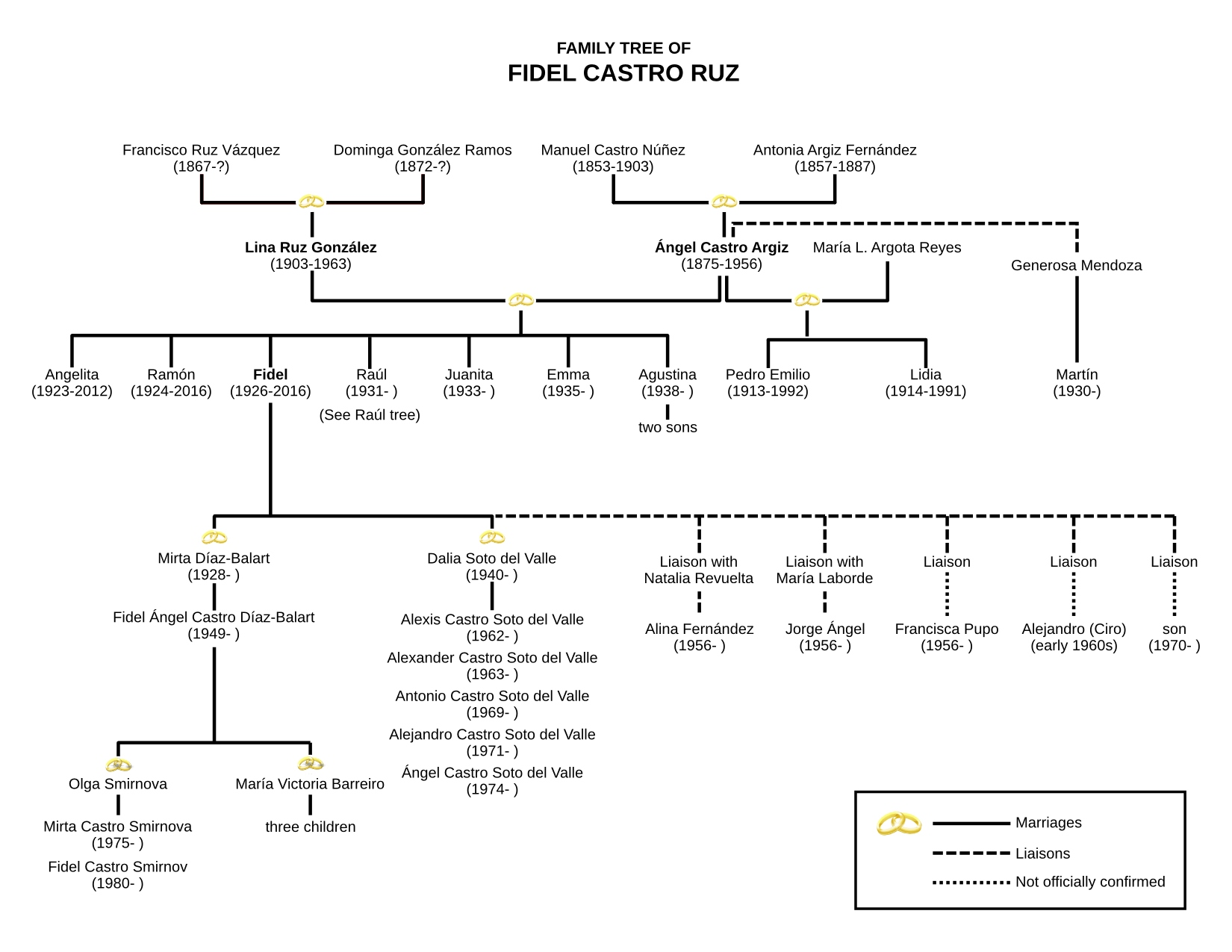 Family tree of Fidel Castro